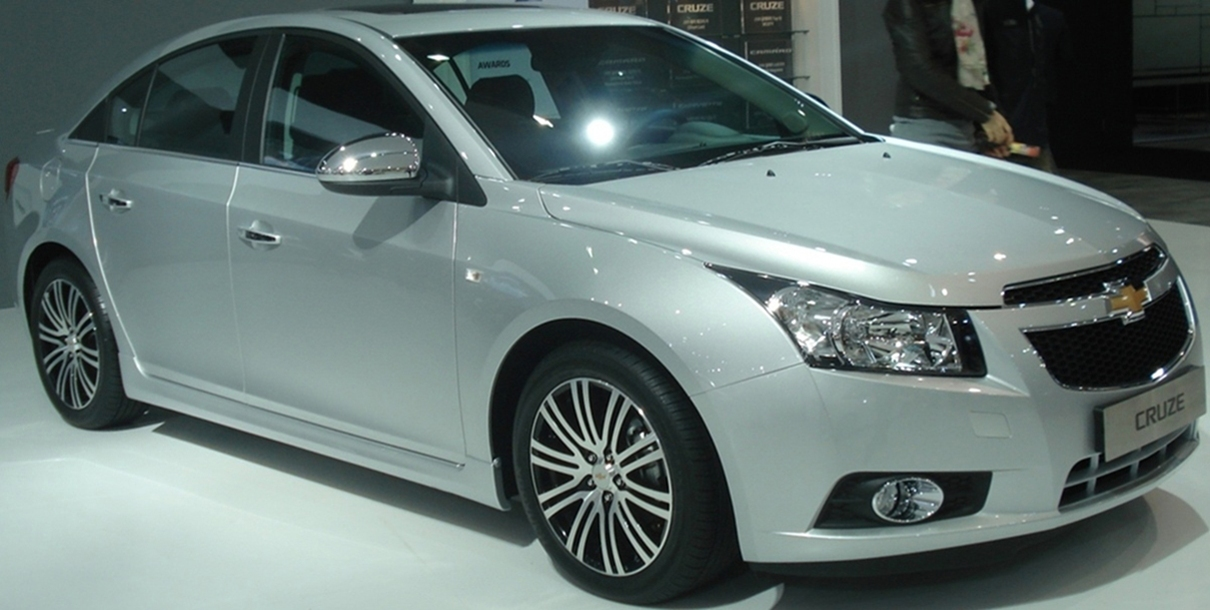 Chevrolet Cruze